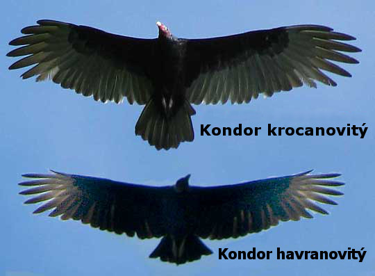 Silhouettes of a Turkey Vulture and an American Black Vulture